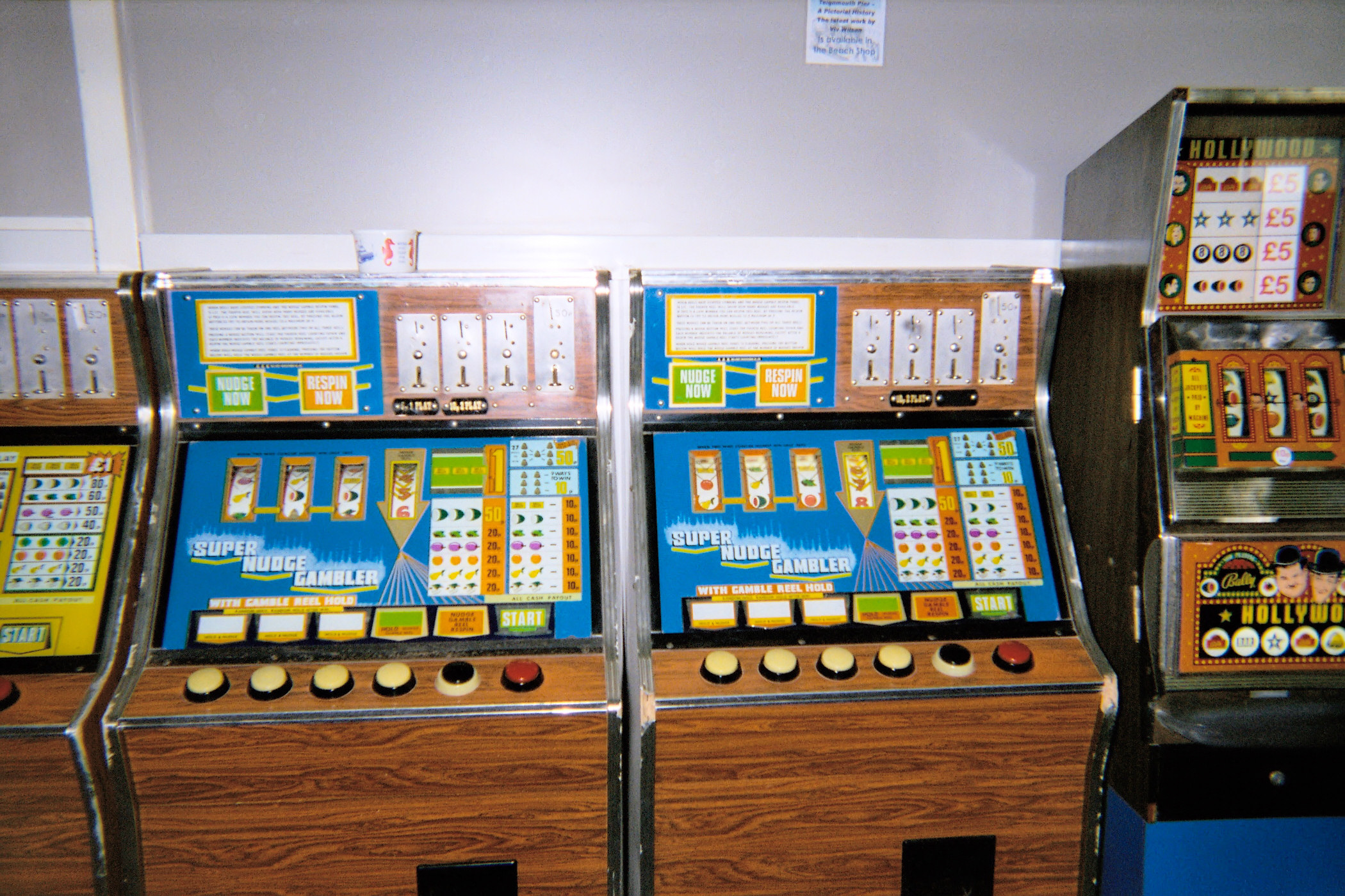 A group of old British fruit machines at Teignmouth pier, Devon.